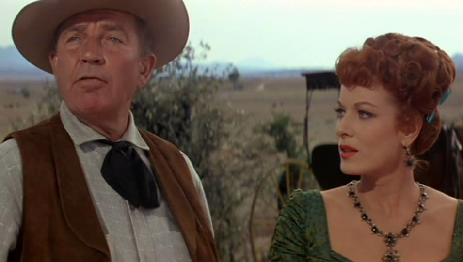 Bruce Cabot and Maureen O'Hara in McLintock! (cropped screenshot)